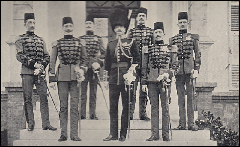 British Gendarmerie Officers in Macedonia